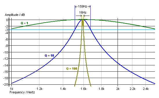 Frequency response of Q factor, or quality factor, of parametric equalization.